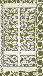 font nastaliq